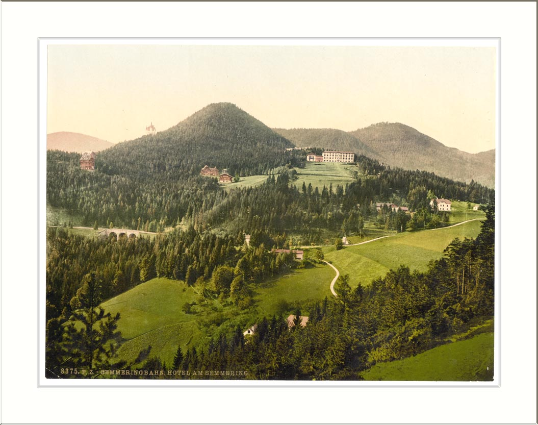 between ca. 1890 and ca. 1900. Print no. 8375. Views of the Austro-Hungarian Empire 1 photomechanical print : photochrom color. Library of Congress Prints and Photographs Division Washington D.C. 20540 USA Semmering Railway Hotel at Semmering Styria Austro-Hungary between ca. 1890 and ca. 1900. Print no. 8375. Views of the Austro-Hungarian Empire 1 photomechanical print : photochrom color. Library of Congress Prints and Photographs Division Washington D.C. 20540 USA